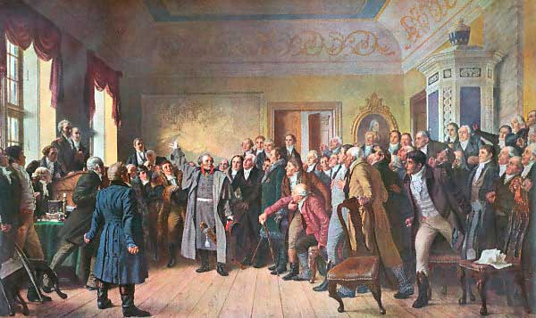 Count Yorck's speech to the East Prussian states on February 5th, 1813 in Königsberg. The original painting was destroyed in WW II.